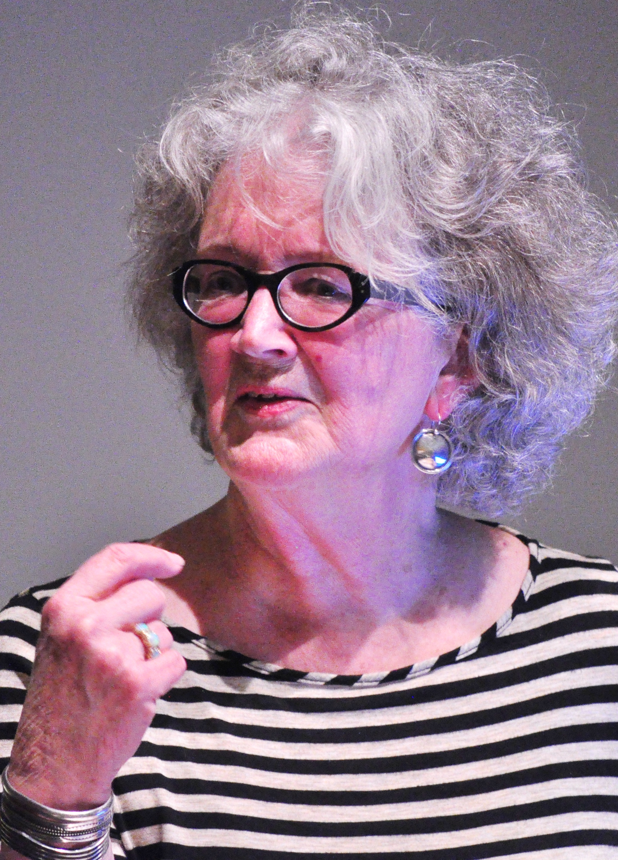 Seattle artist Faye Jones, delivering the 2013 Anne Gould Hauberg Libraries Artist Image Lecture at Kane Hall, University of Washington, Seattle, Washington, U.S.